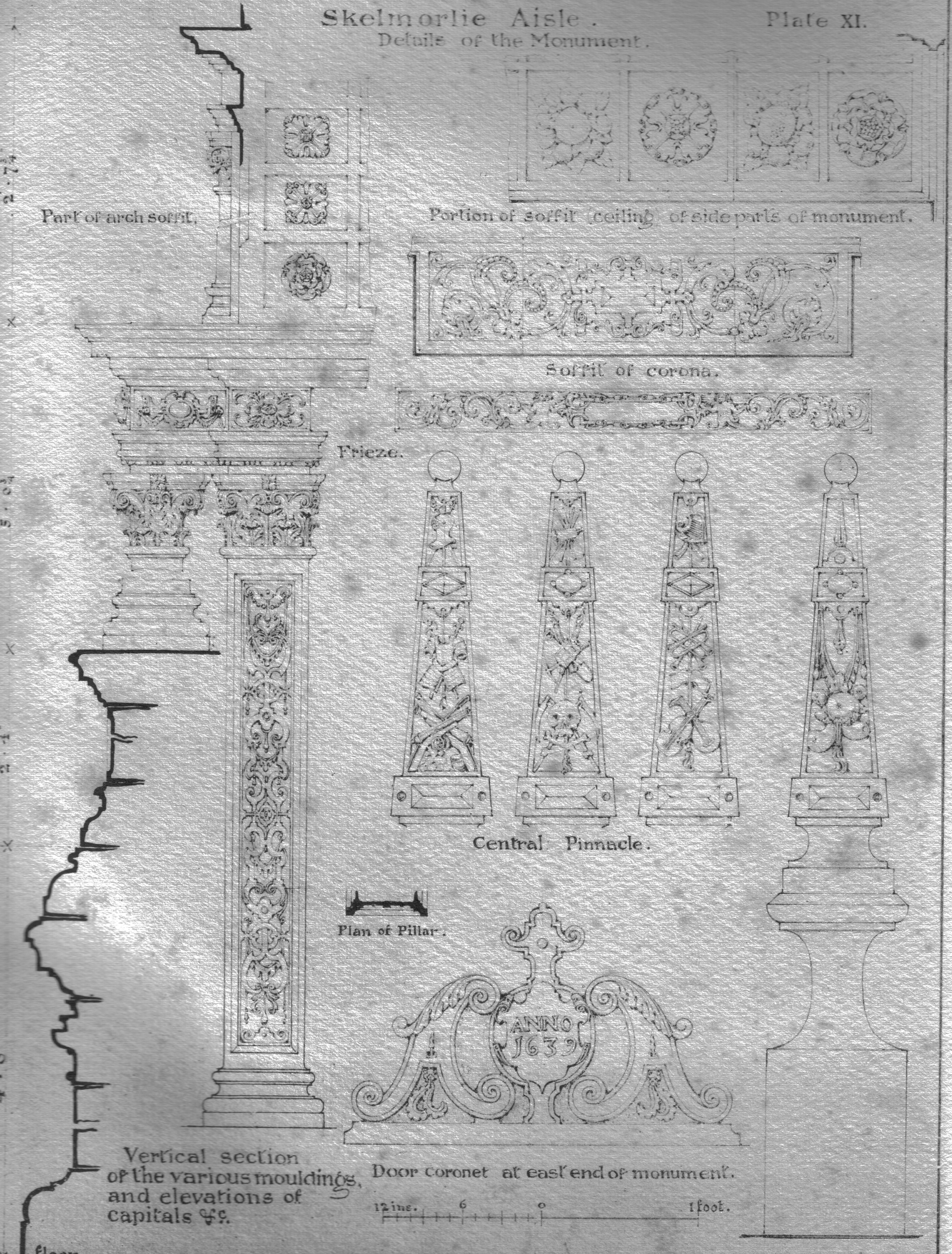 The interior of the Skelmorlie Aisle at Large in the 1890s.